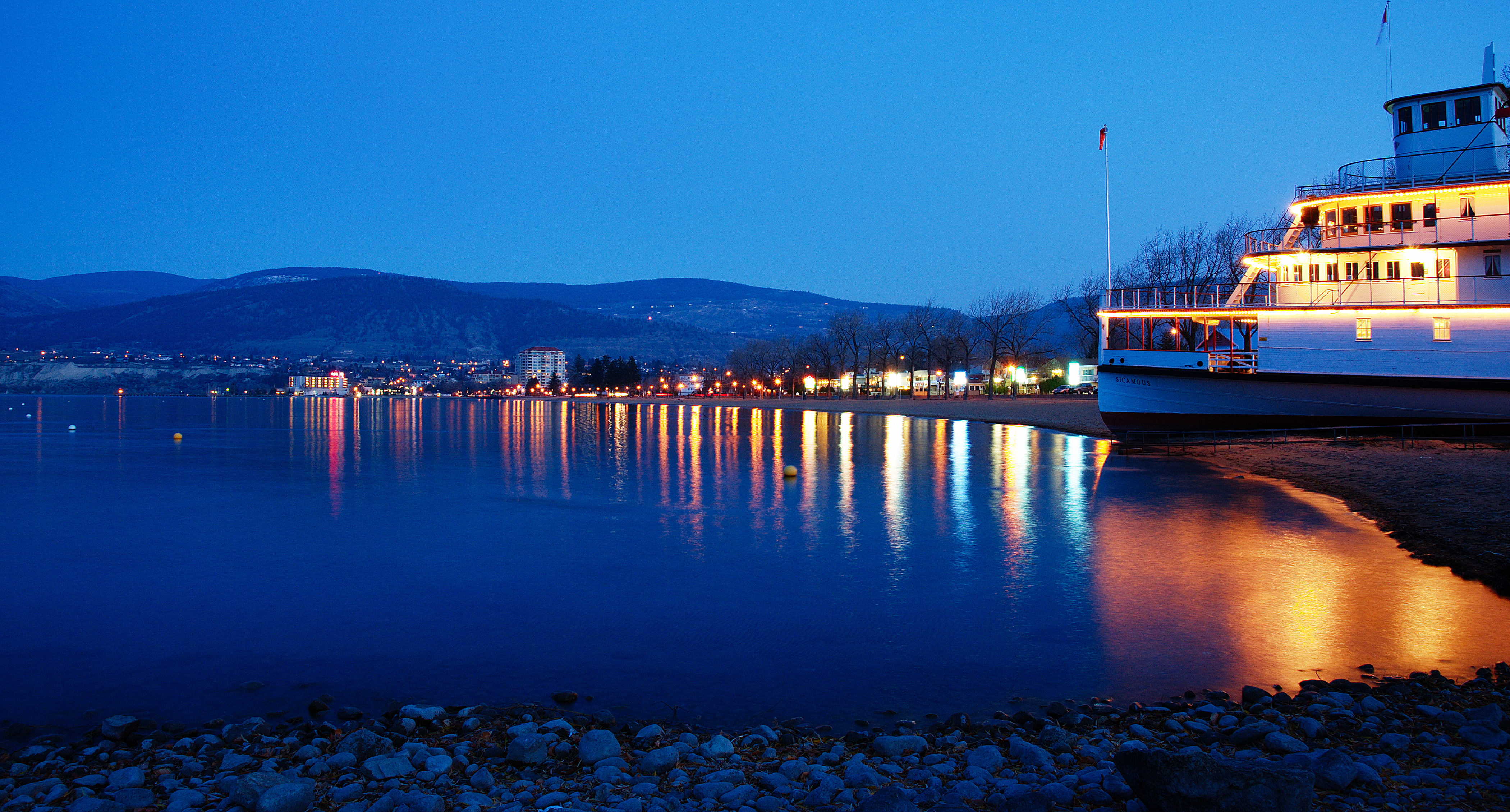 Lakeshore Drive and Okanagan Beach on Okanagan Lake in Penticton British Columbia.